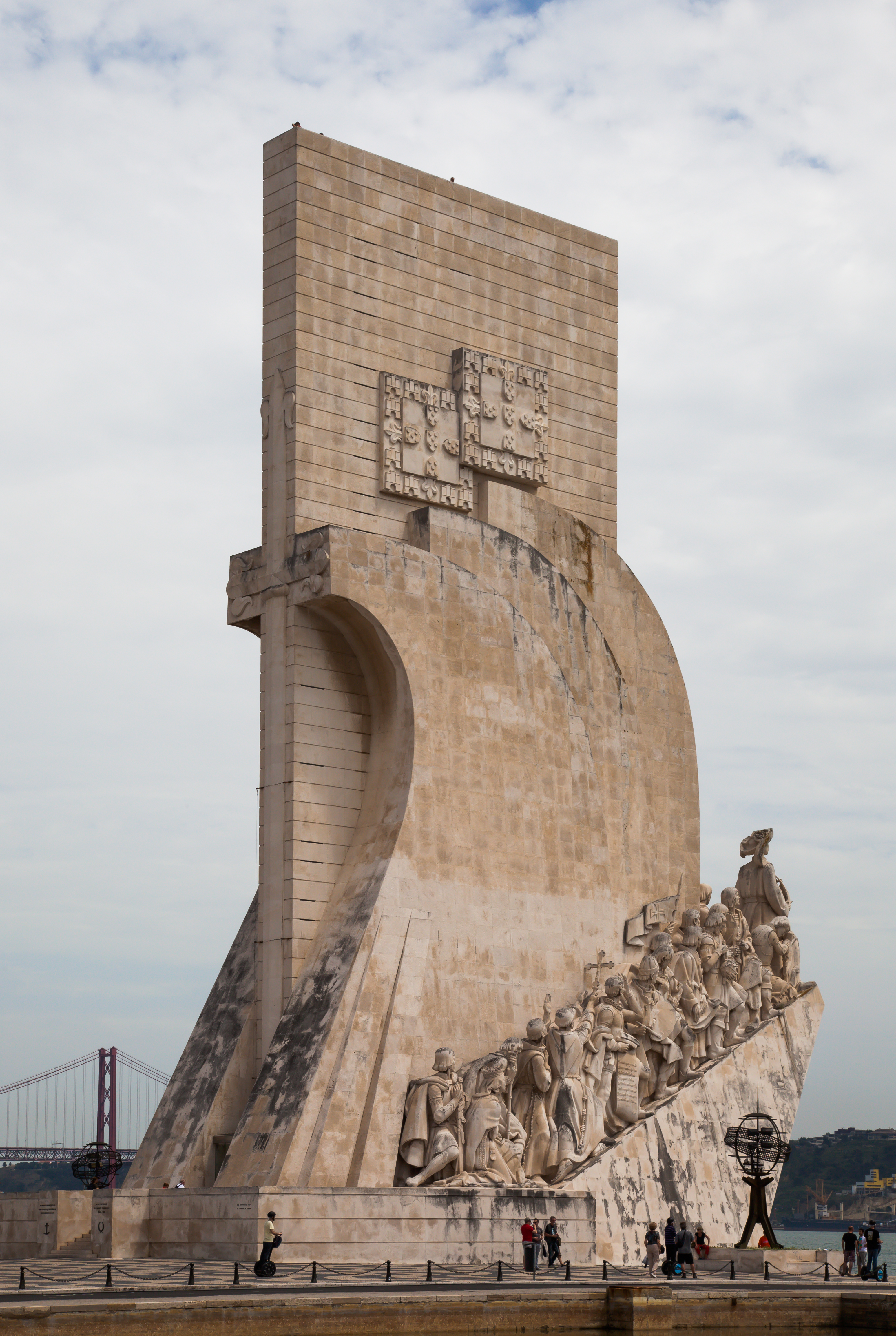 Monument to the Discoveries in Belém (Lisbon), Portugal